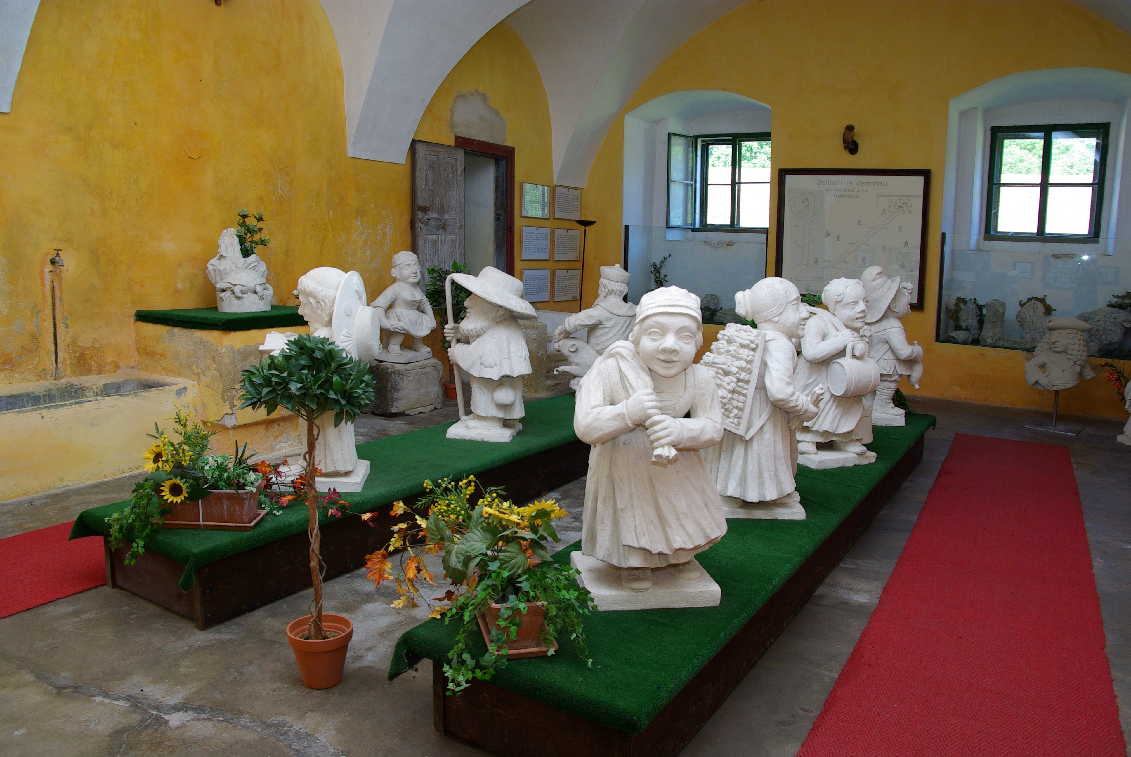 Schloss Greillenstein in Lower Austria. Dwarf gallery.